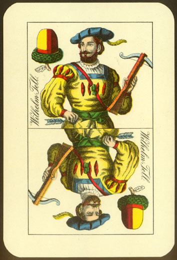 "Piatnik" (Austria) deck "Wilhelm Tell" (32 cards, hungarian pattern)